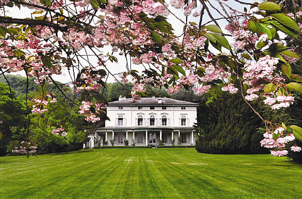 Image of Manoir de Ban